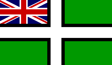 Devon Ensign Flag